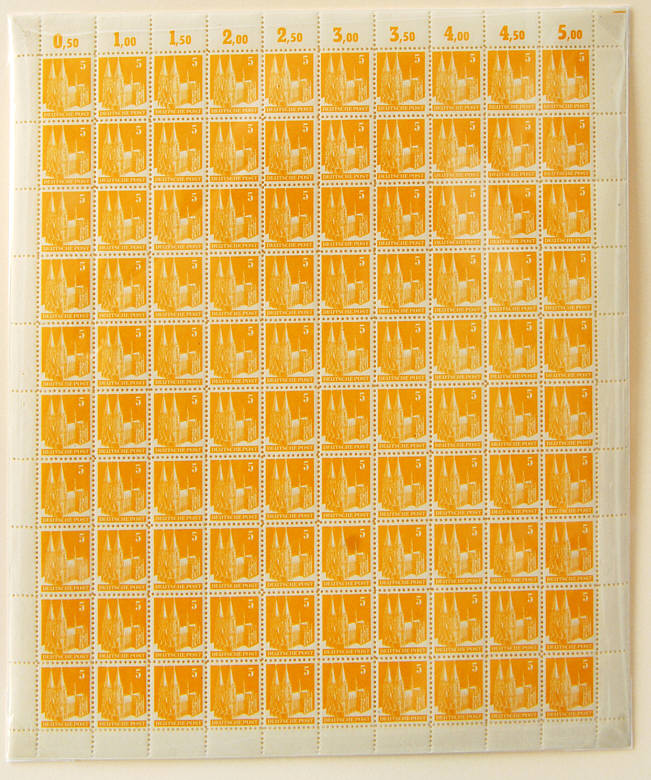 Yellow Cathedral, a sheet of 100 unissued 5-Pfennig stamps produced by the Deutsche Post in 1948 in the American and British Occupation Zones of Germany, displayed at the Cologne fair 'Philatelie und MünzExpo' (Philately and Coin Exposition) between September 20 to 22, 2007.